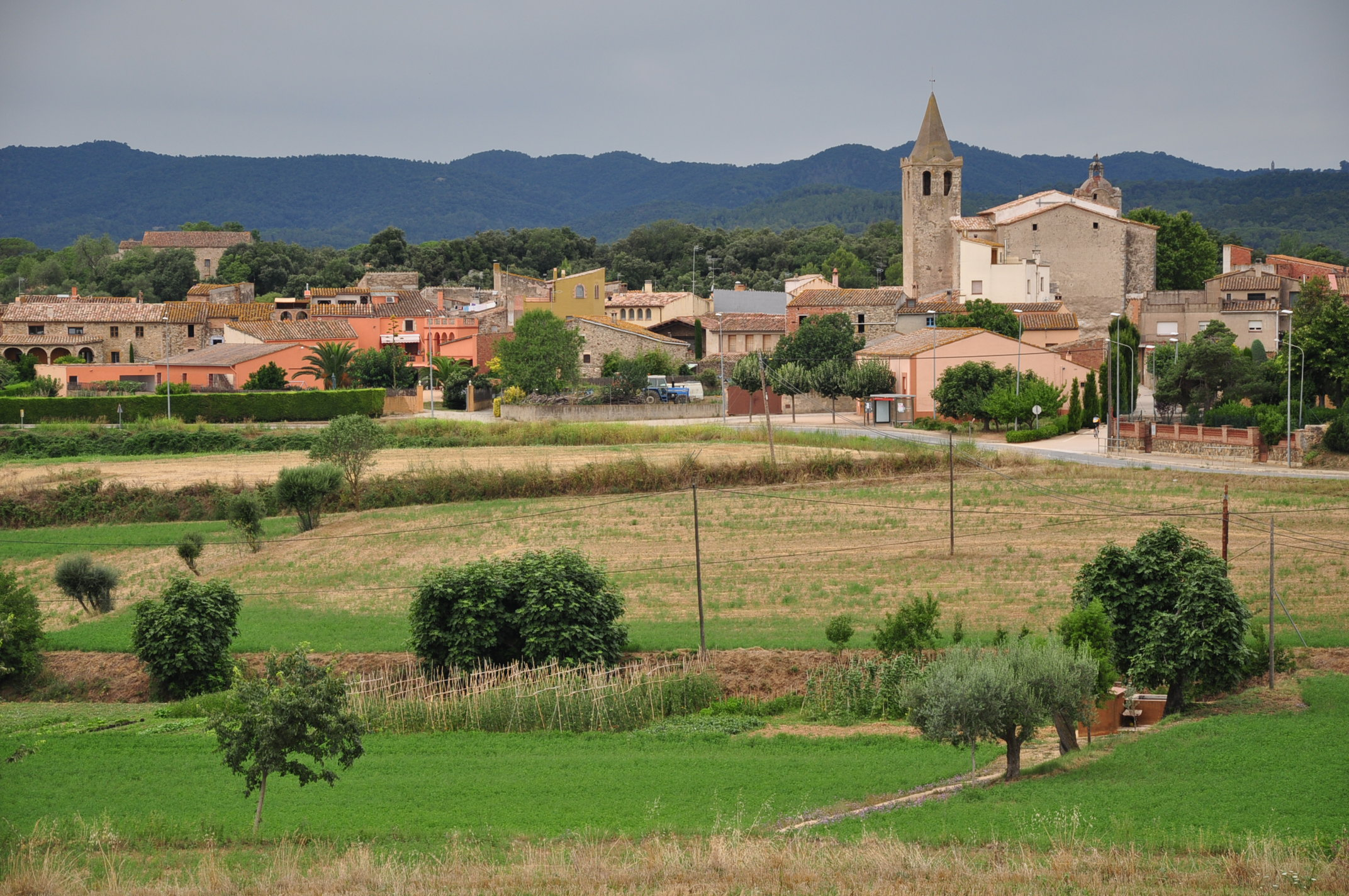 Sant Sadurní de l'Heura, seen from the east, with the Gavarres mountains in the background (District of Baix Empordà, Catalonia, Spain).